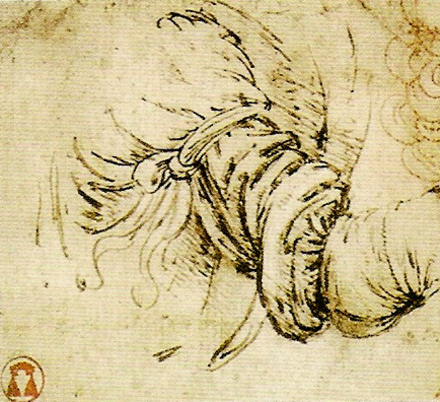 pl: Studium rękawa do obrazu Zwiastowanie en: Study of sleeve for paint Annunciation